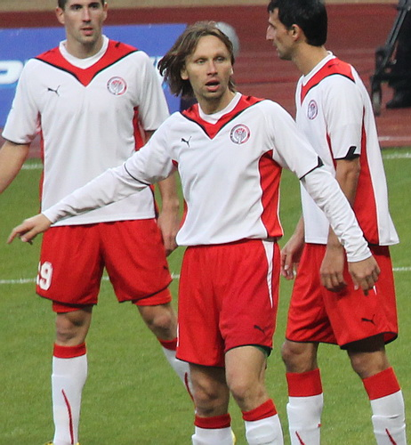 Alexei Popov